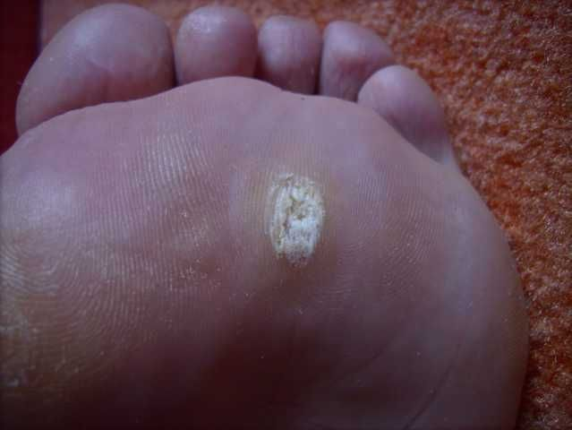 Deep plantar wart which has proved intractable so far.